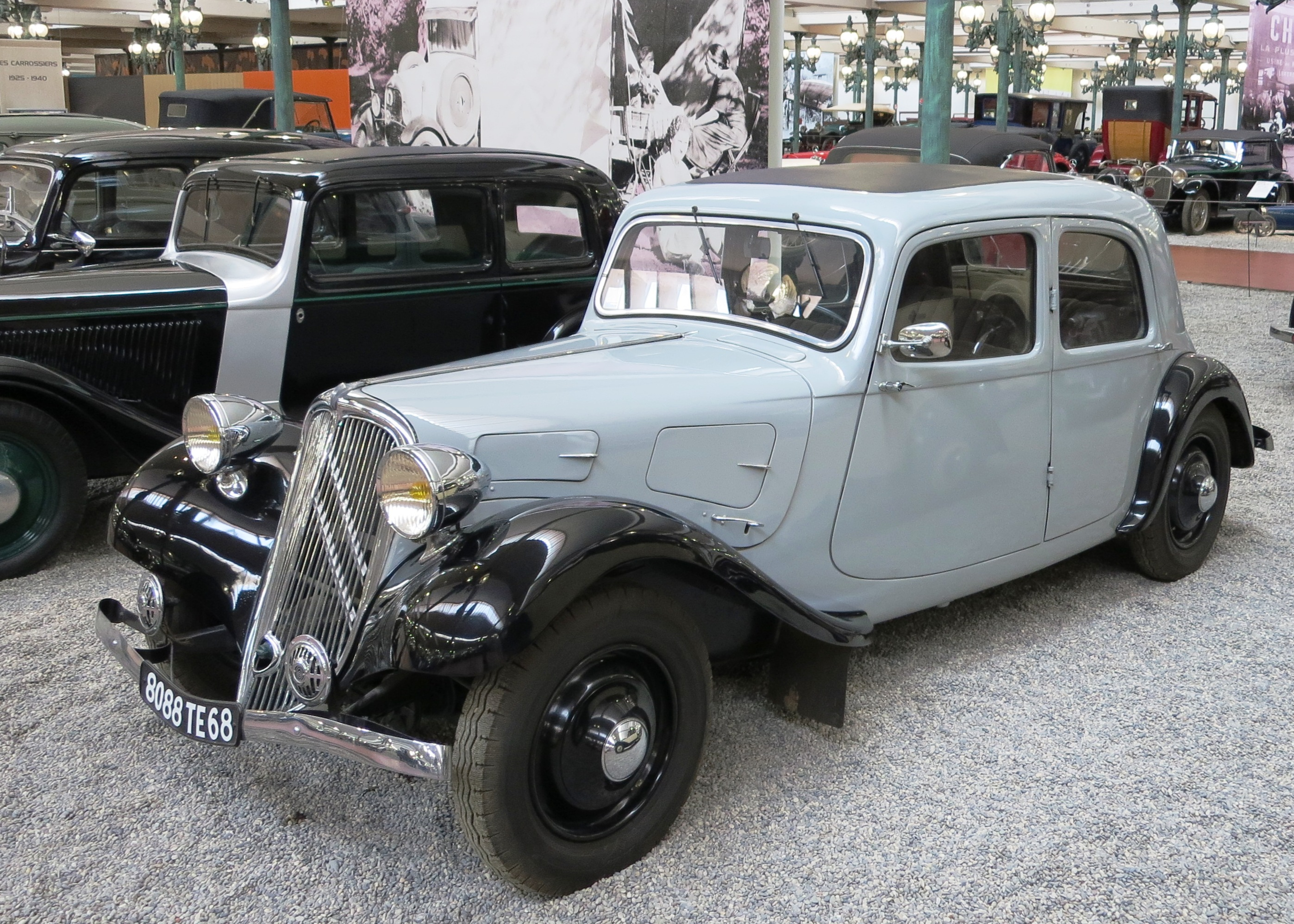 Citroën Traction 7A (1934)